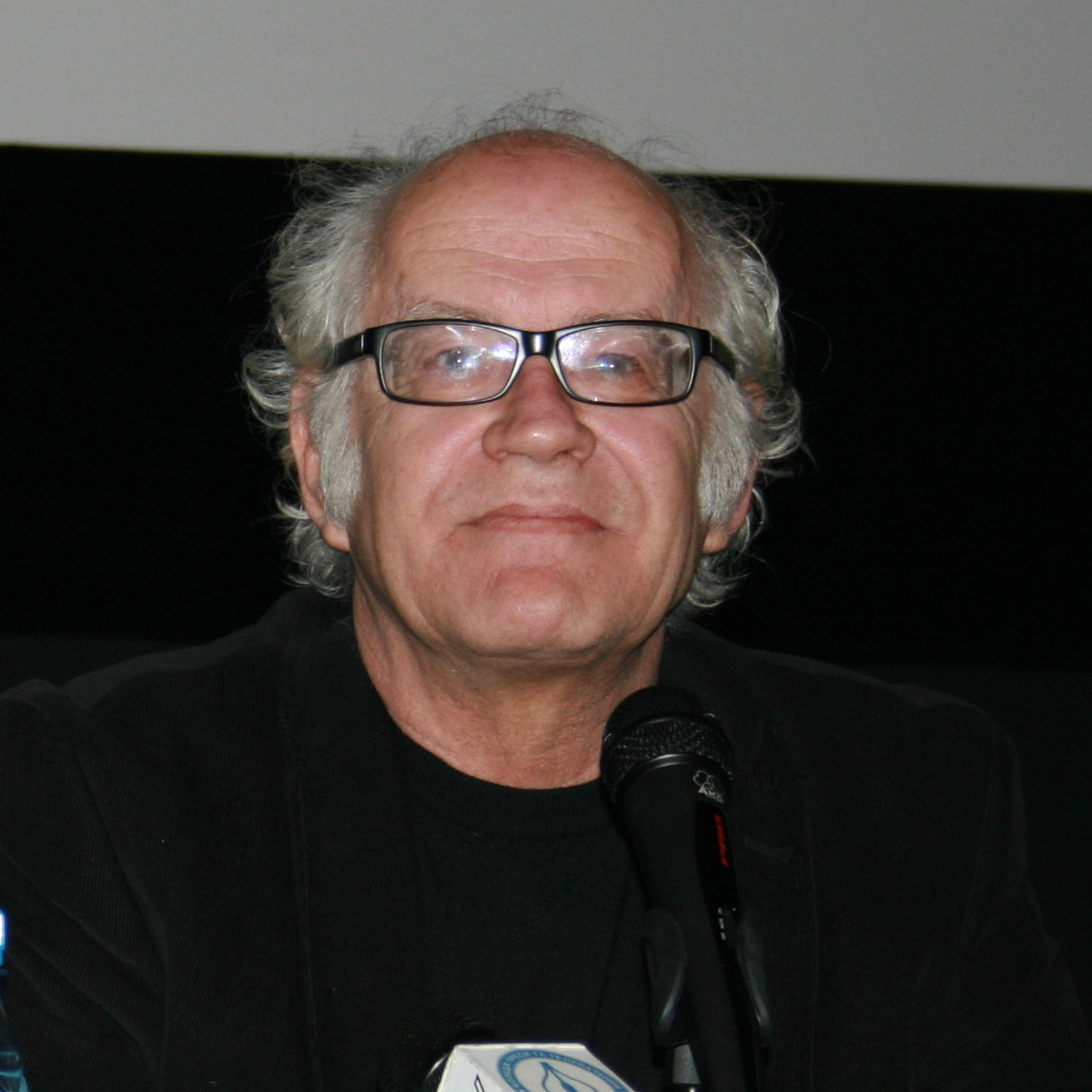 Jos Stelling in Mykolayiv, Ukraine 31.01.2009